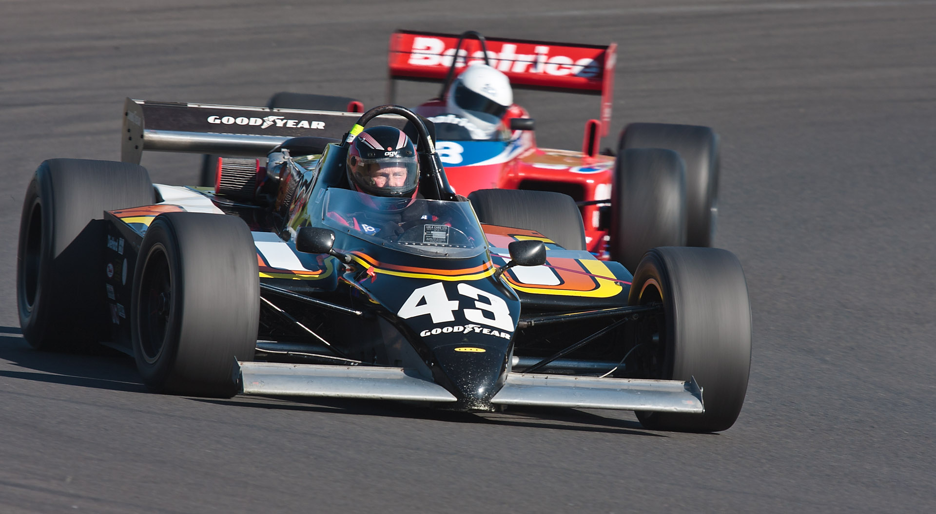 Historic car racing. Eastern Creek, Australia. 25-26 June 2011 20110625-IMG_2495